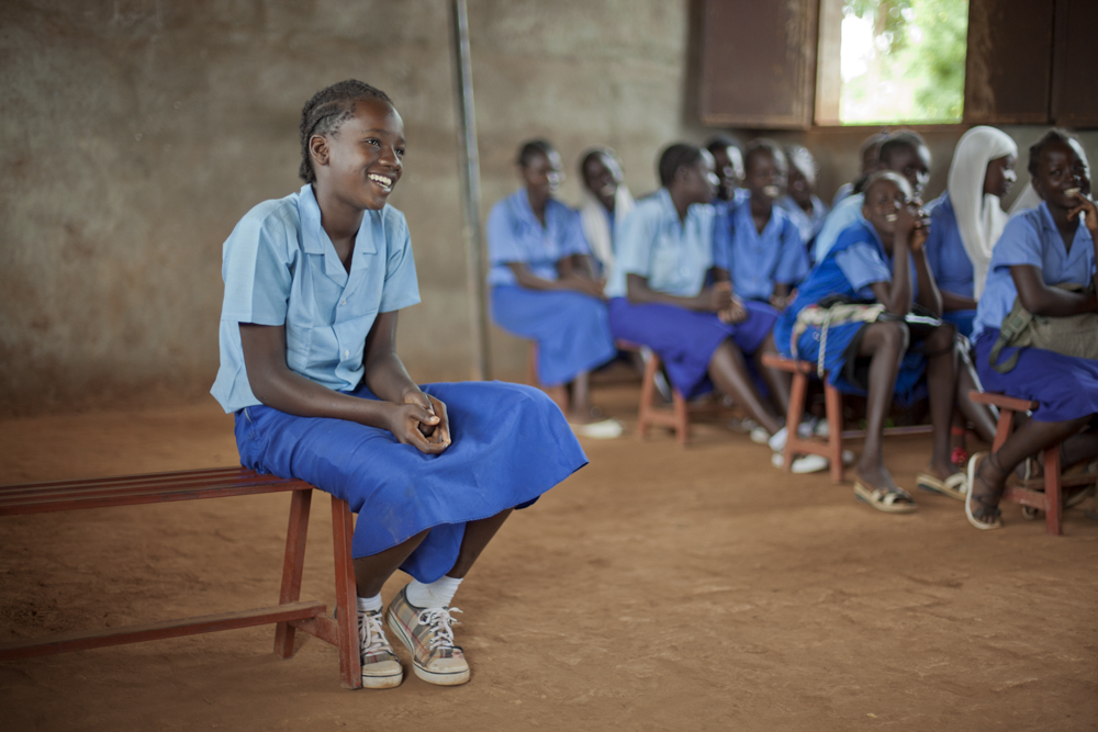 Monica in a classroom in Oxfam's girls' education project, Bahr el Ghazal, South Sudan